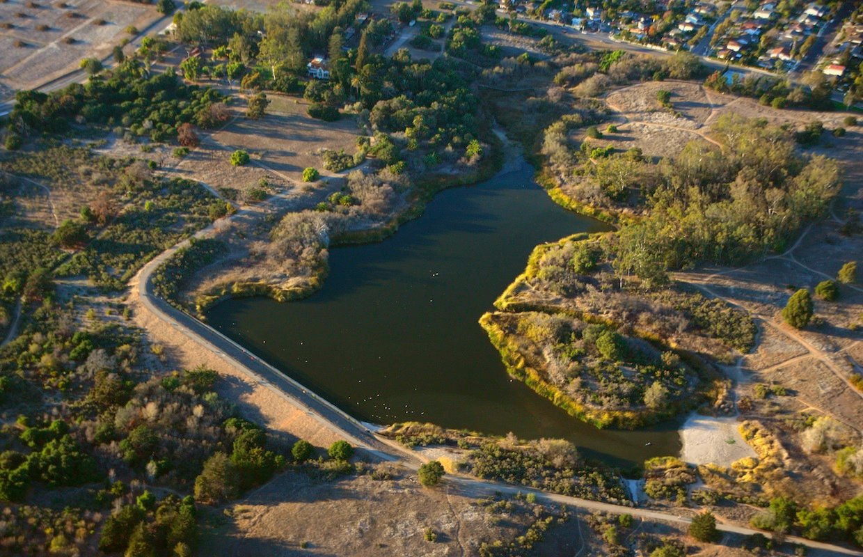 Evening northerly view of Lake Los Carneros, Goleta, CA in dry season. To the left of the far end of the lake is Stow House Museum, and to the left of that the Goleta Depot and South Coast Railroad Museum.